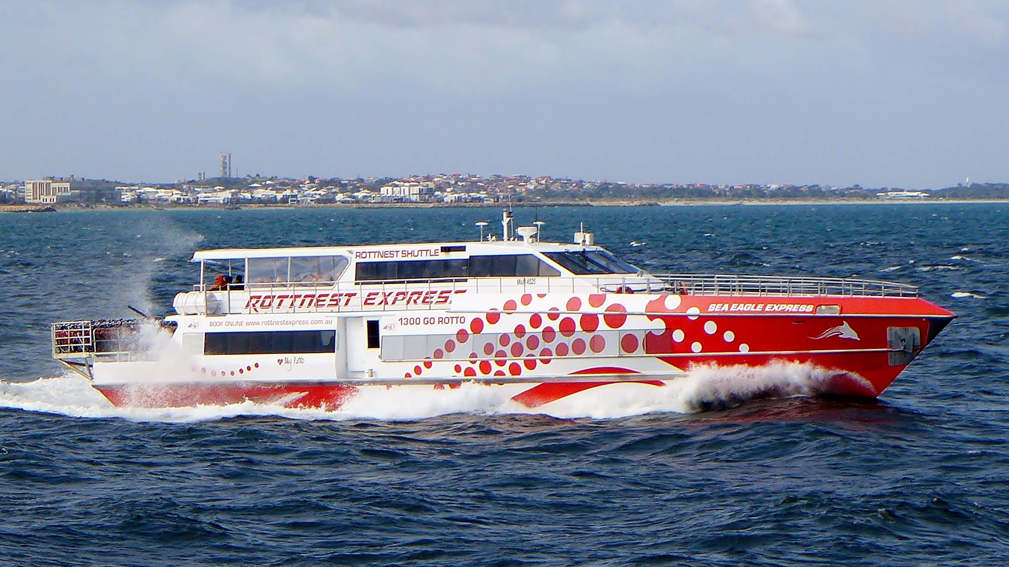 Sea Eagle Express departing from the inner harbour of Fremantle Harbour, Western Australia, on a ferry service to Rottnest Island.